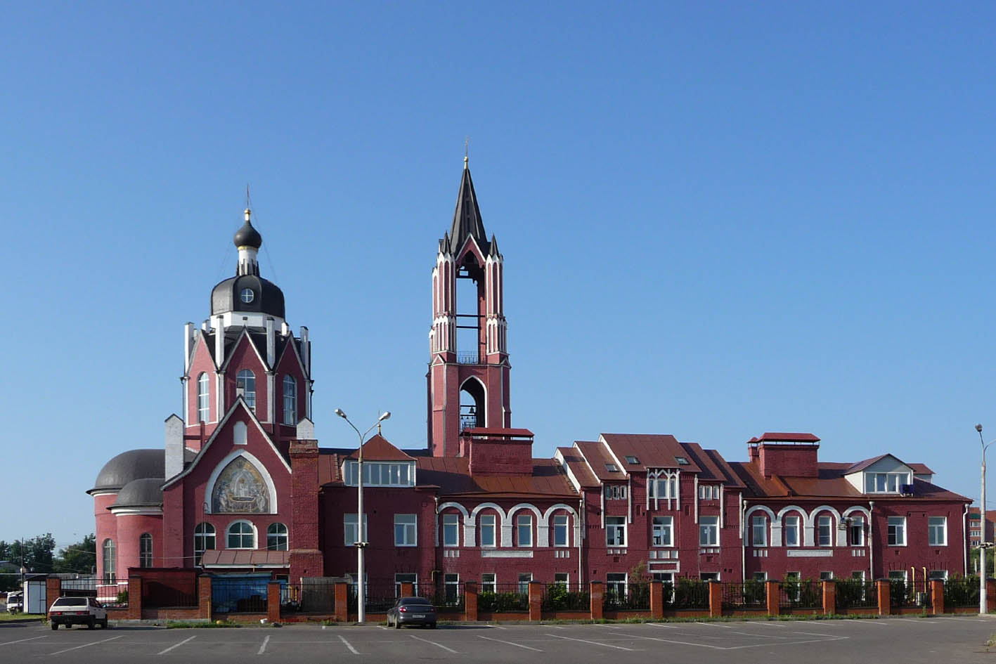 Cathedral of Holy Trinity is in the city of Shcholkovo, Moscow oblast, Russia. The Cathedral was built from 1909 through 1915 under the direction of the architect Sergey Mikhailovich Goncharov.